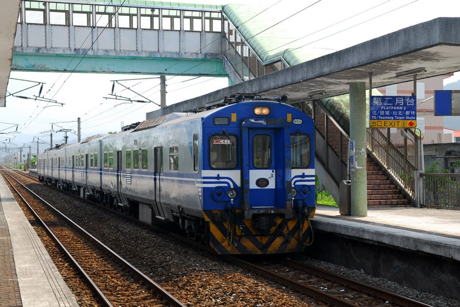 EMU400 is one of the various EMU train types used by TRA. This type of train is usually used as local commuter train.